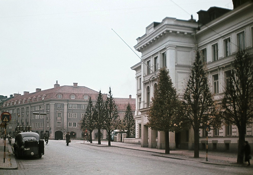 Järnagatan (Järna street), with the City Hotel to the right. To the left a car with a producer gas unit. Järnagatan, med Stadshotellet till höger. Till vänster en bil med gengasaggregat. Parish (socken): Södertälje Province (landskap): Södermanland Municipality (kommun): Södertälje County (län): Stockholm Photograph by: Fredrik Bruno Date: 1944 Format: Colour slide See a recent photo of the same view: Persistent URL: Read more about the photo database (in english)